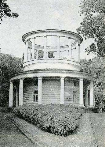 A photo of St. Nicholas church in Soviet times.